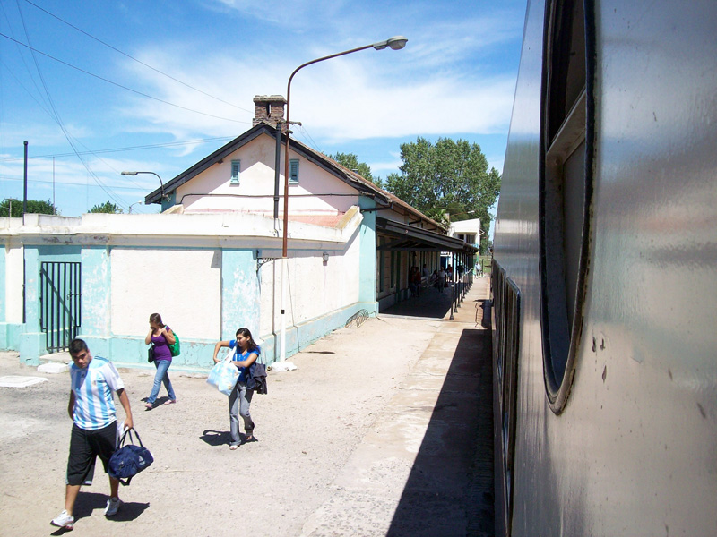 Maipú train station